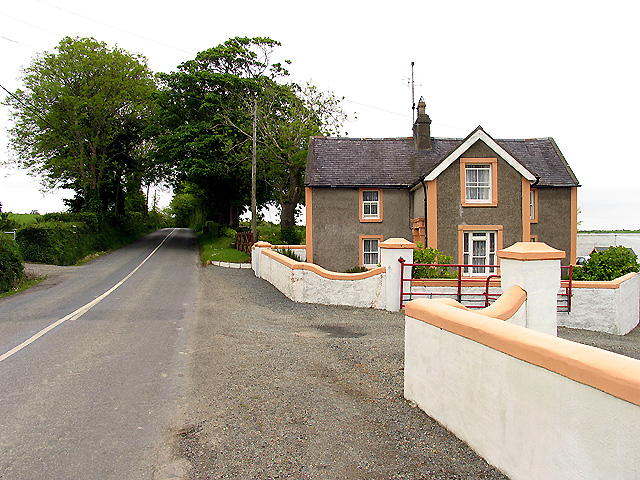 Farm near Saltmills and Bannow Bay. This area is largely farmland and this farmhouse has its barn to the rear of the house.